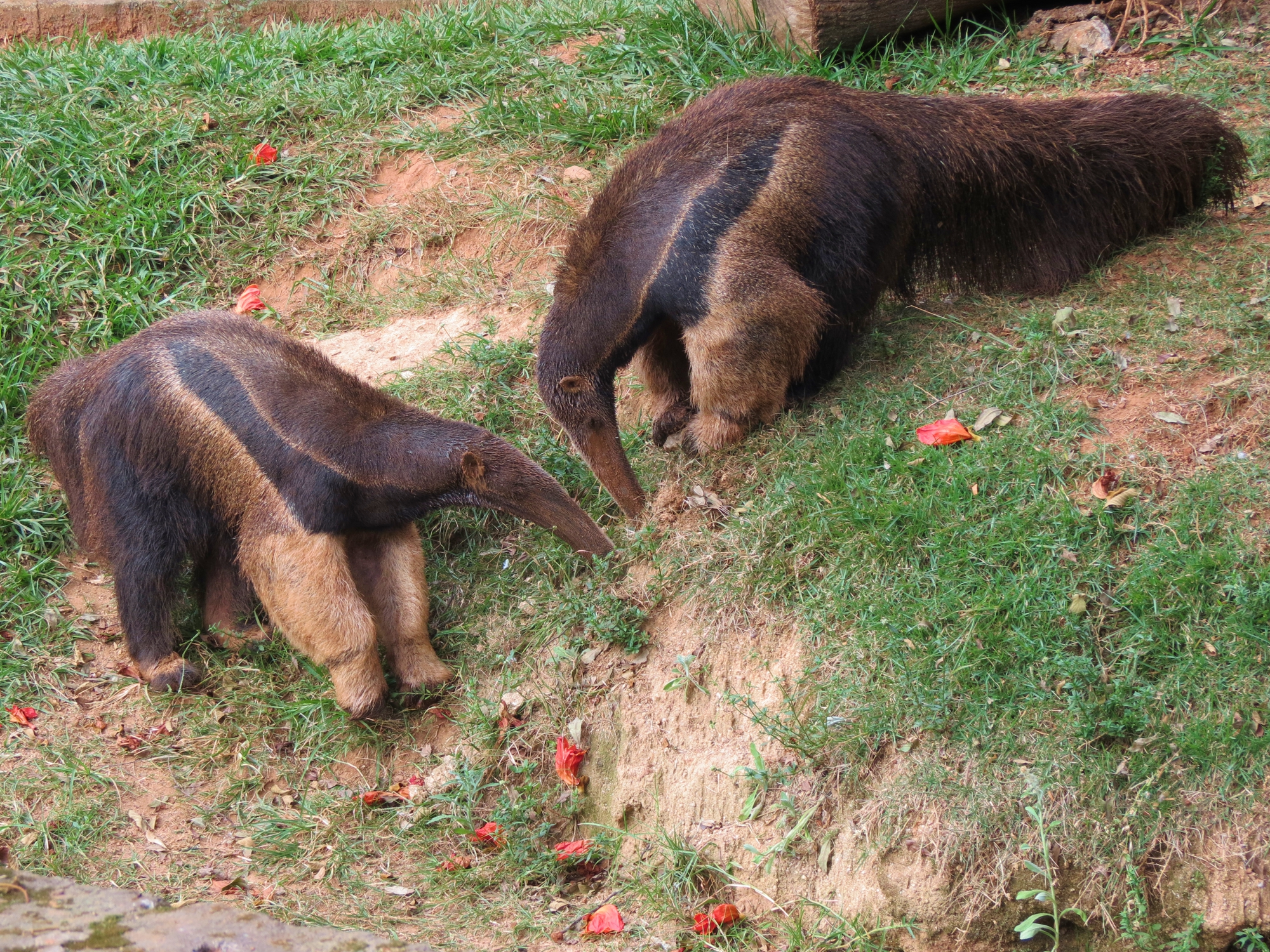 Giant anteater (Myrmecophaga tridactyla) in Sorocaba Zoo.